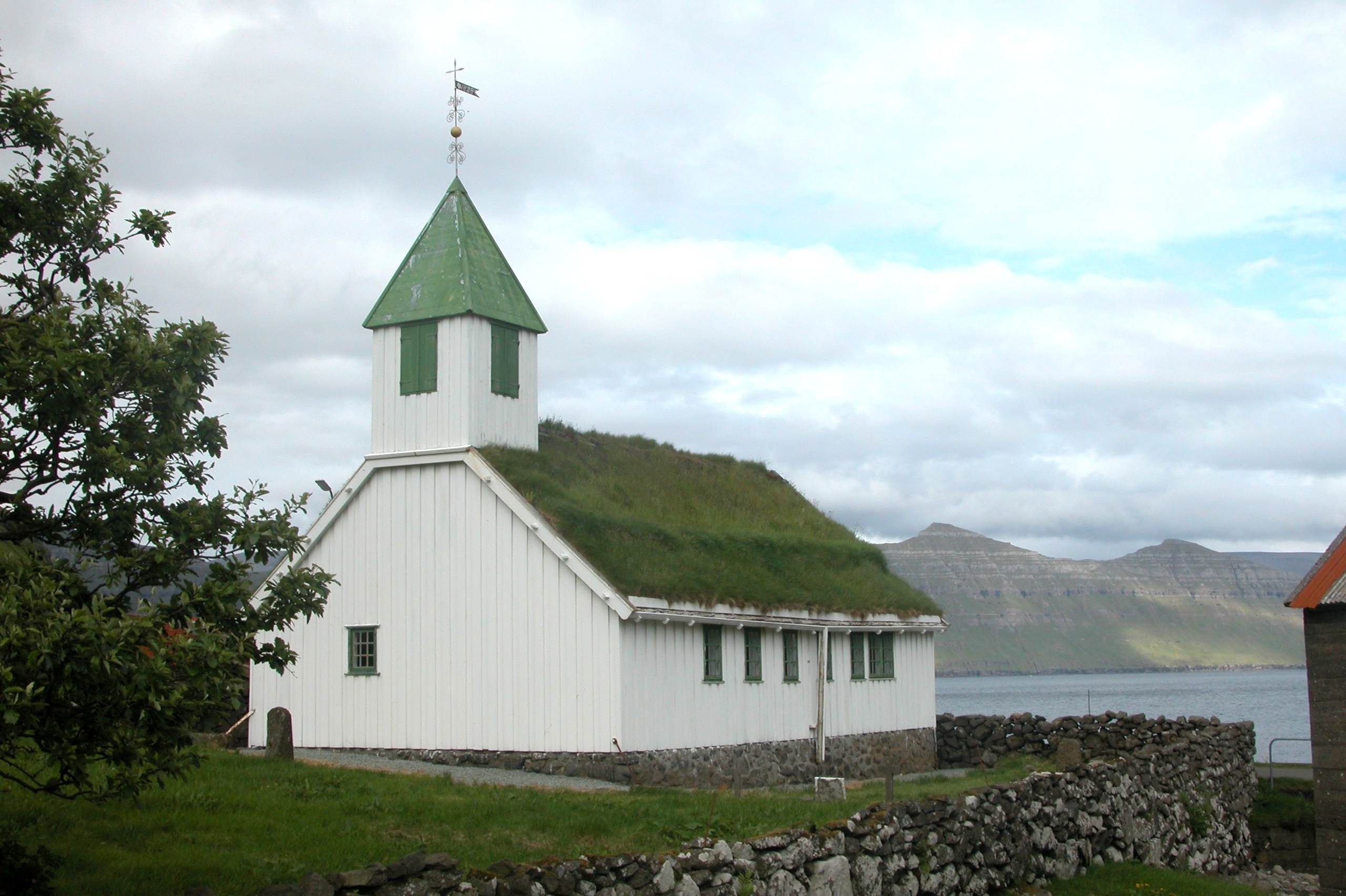 Church of Oyndarfjørður, Eysturoy, Faroe Islands.